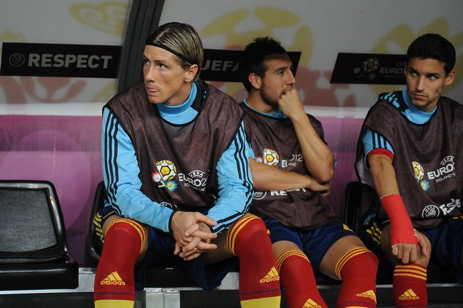 Fernando Torres on Spain bench at Euro 2012 match against France